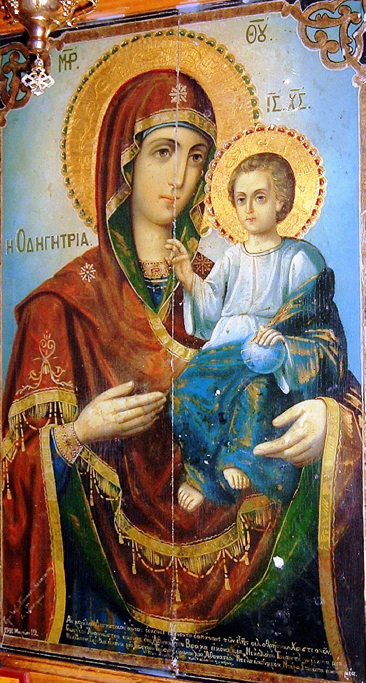 Mary Odigitria Icon in Germas (Loshnitsa).